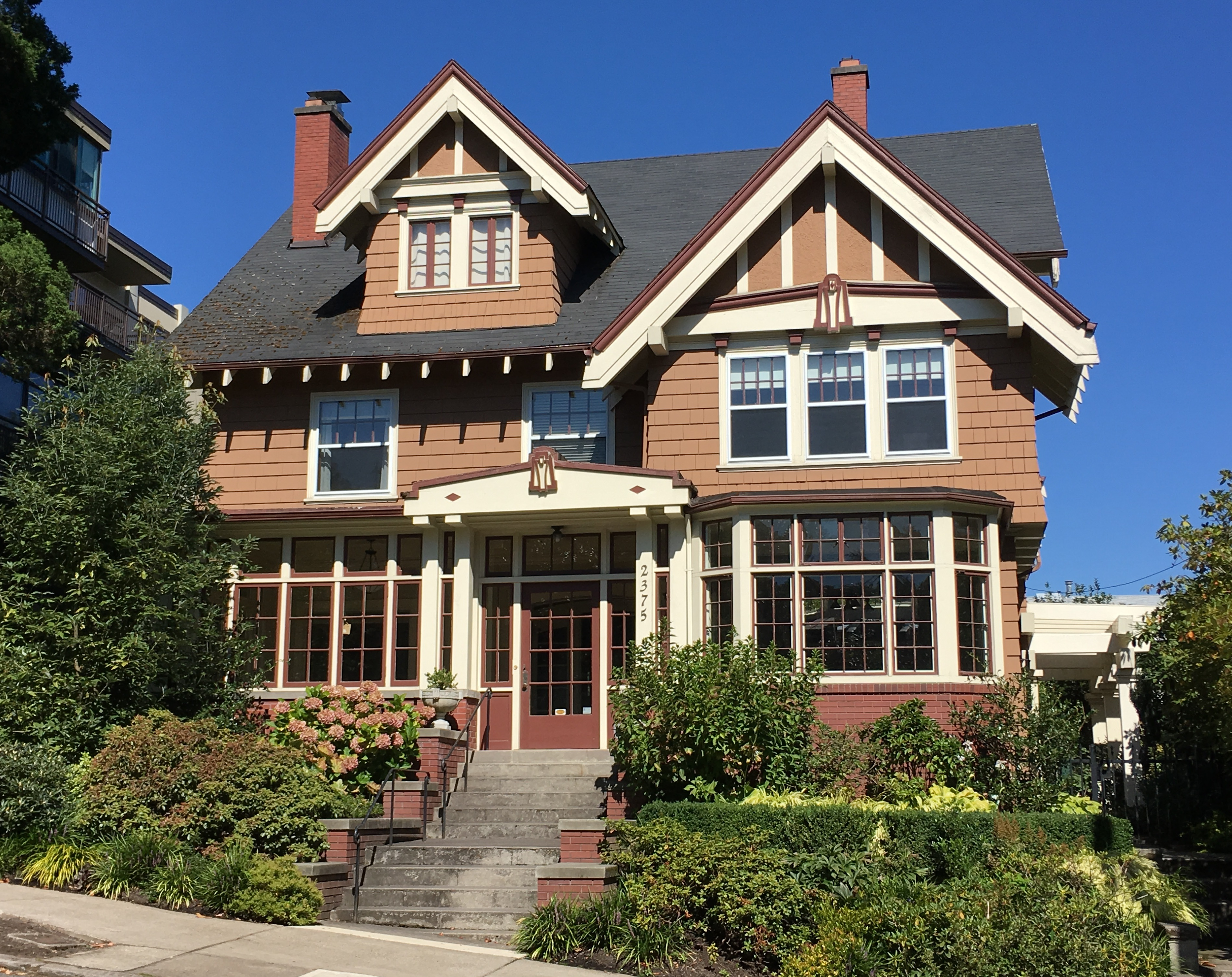 The historic Charles J. and Elsa Schnabel House (built 1907), located at 2375 Southwest Park Place in Portland, Oregon, United States, is listed on the U.S. National Register of Historic Places. It is additionally listed as a contributing resource in the National Register-listed King's Hill Historic District.